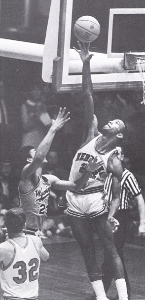 Nebraska Cornhuskers basketball player Stu Lantz